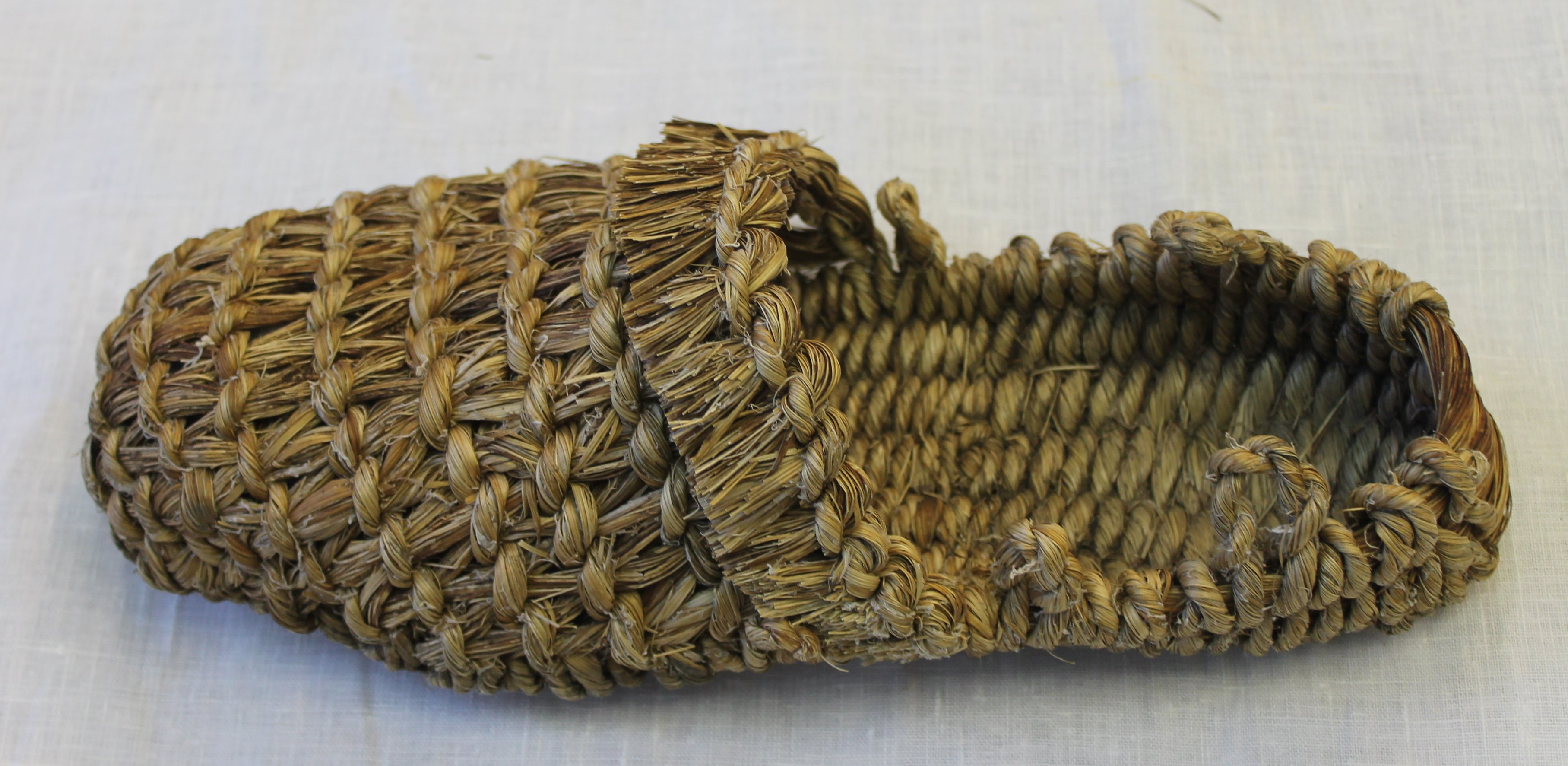 Replica of the world's oldest shoes found in Oregon in 1938, about 10,000 years old. Developed by Petr Hlaváček and Václav Gřešák, Zlín, Czech Republic